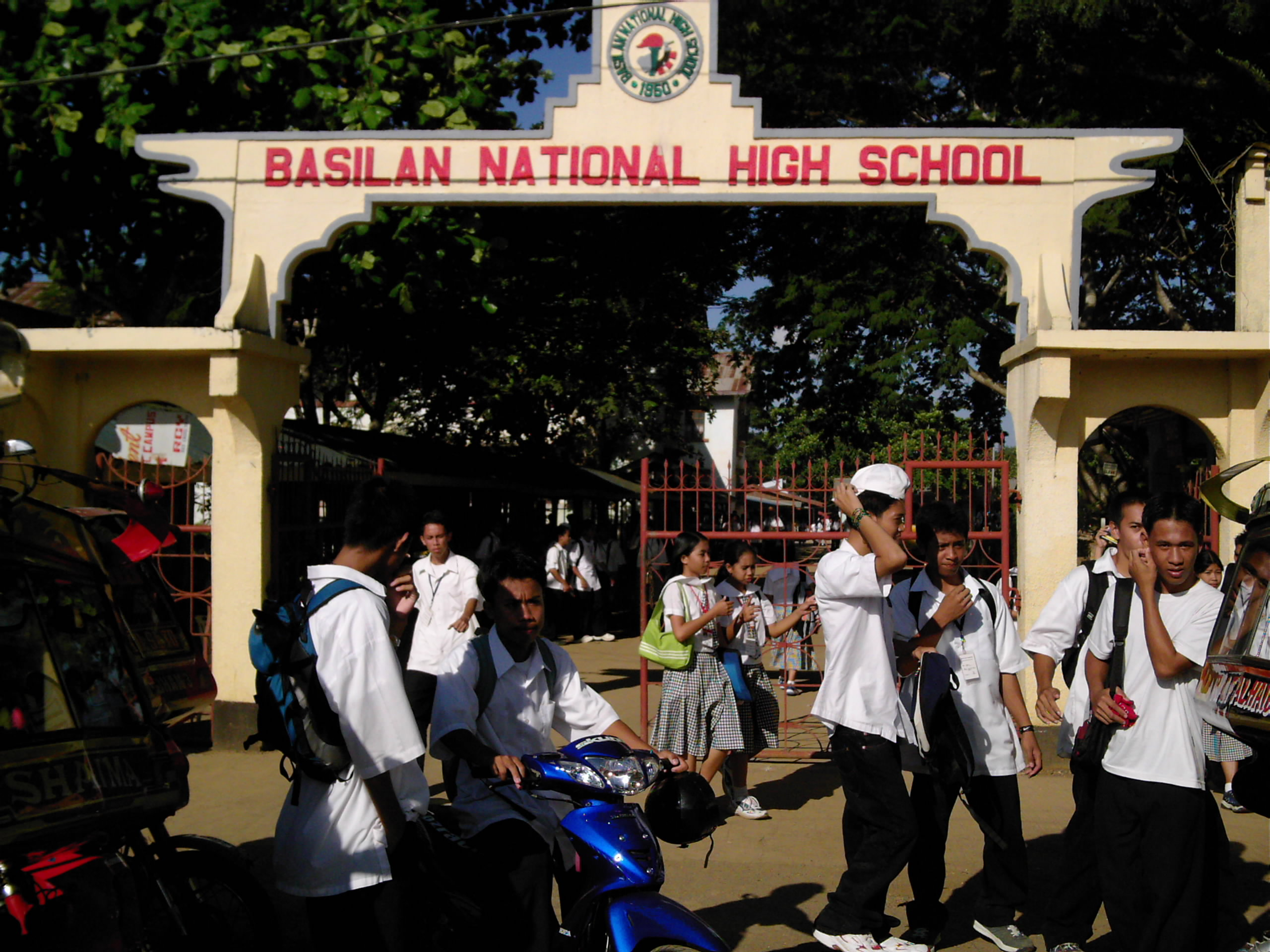 photograph of Basilan National High School gate